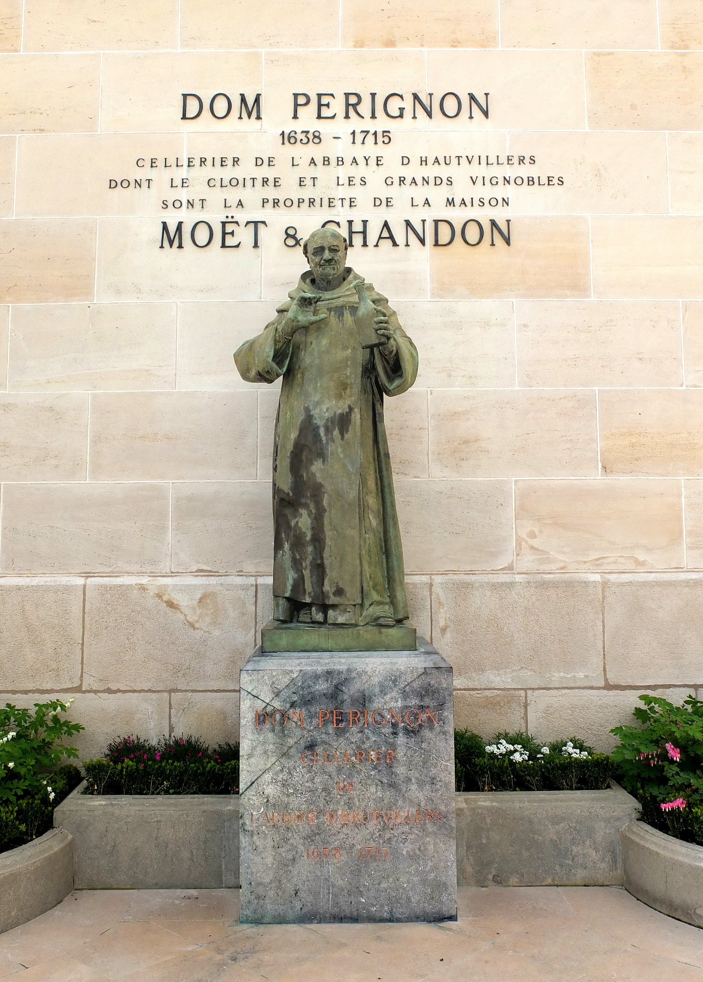 Statue of Dom Pérignon at Moët et Chandon in Épernay, France.